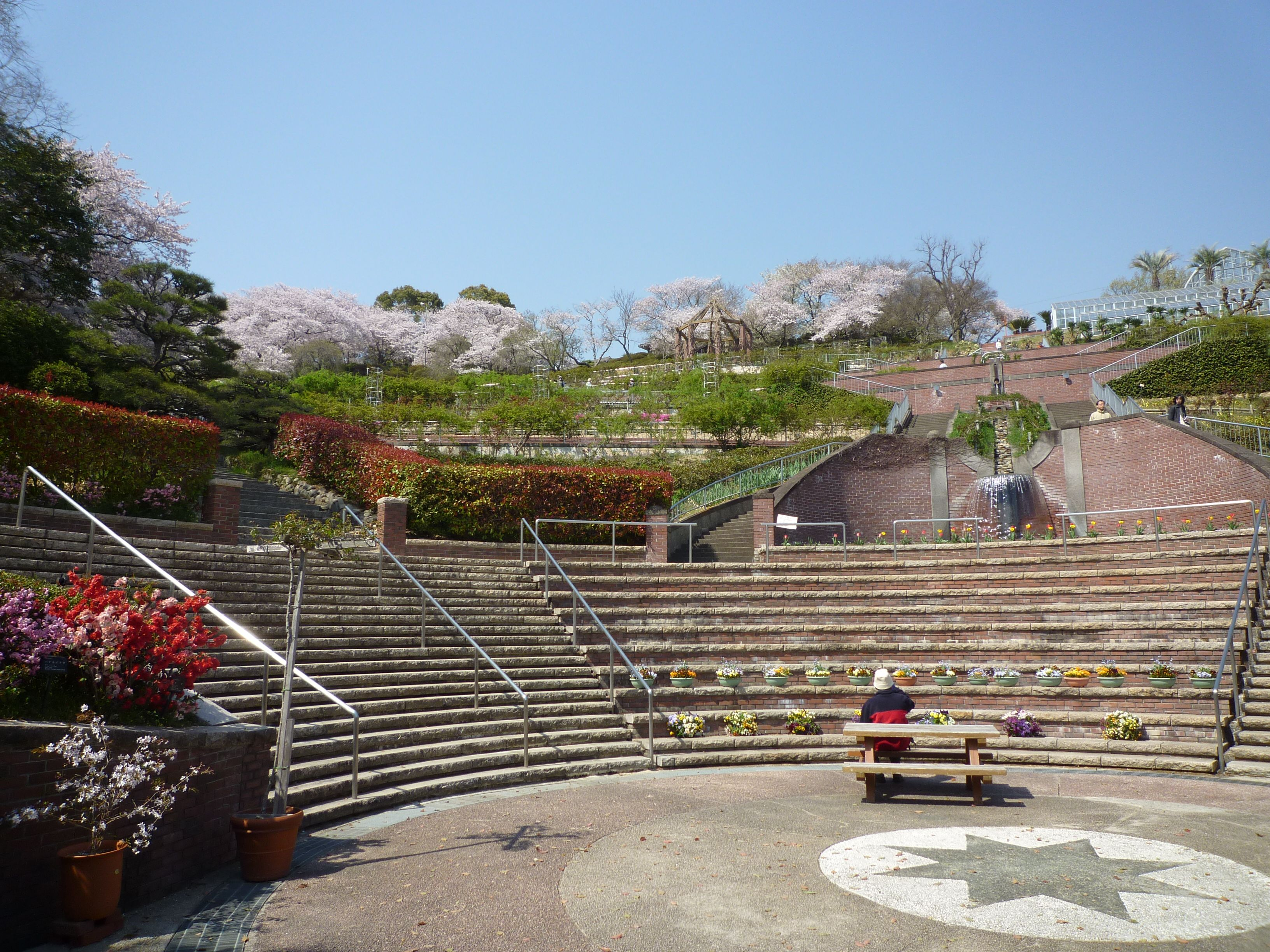 Handayama Botanical Garden (Kita-ku, Okayama city, Okayama Prefecture, JAPAN.)